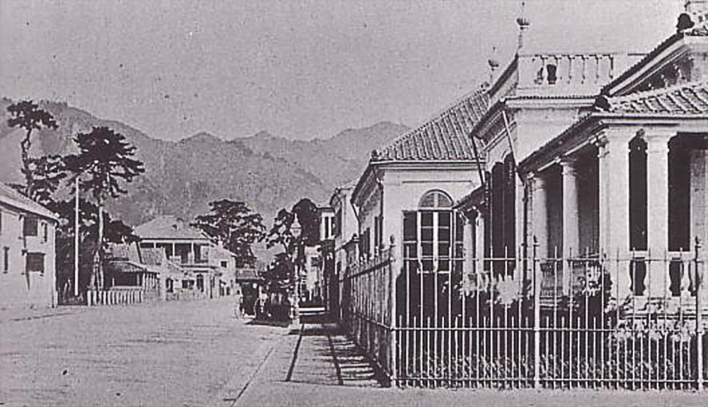 Foreign Settlement in Kobe